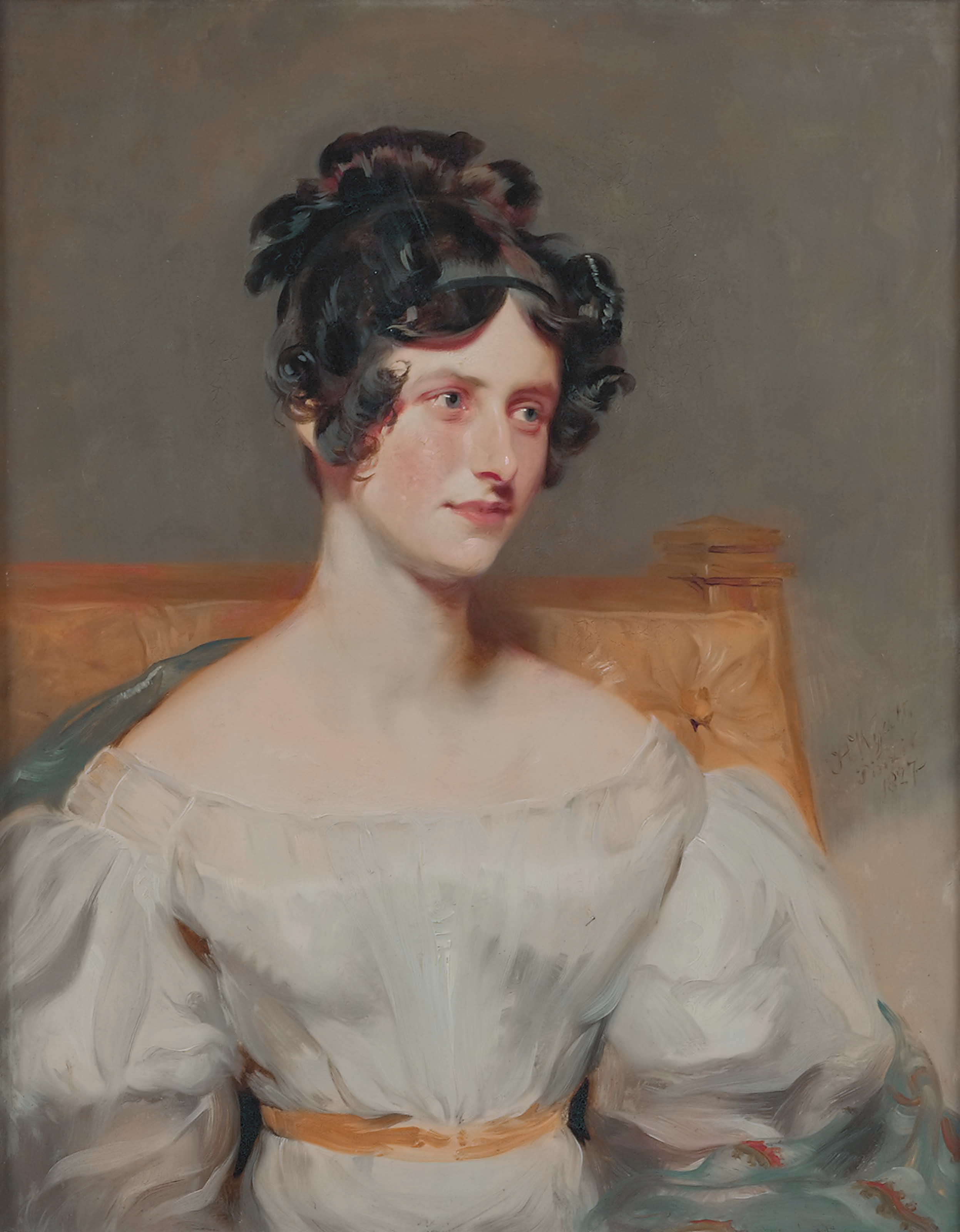 Mrs. Henry William Wilson oil on board 29.5 x 23.5 cm signed c.r.: H Wyatt/Pinxit/1827